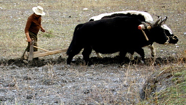 plowing with a pair of dzo (yak-cow hybrid)